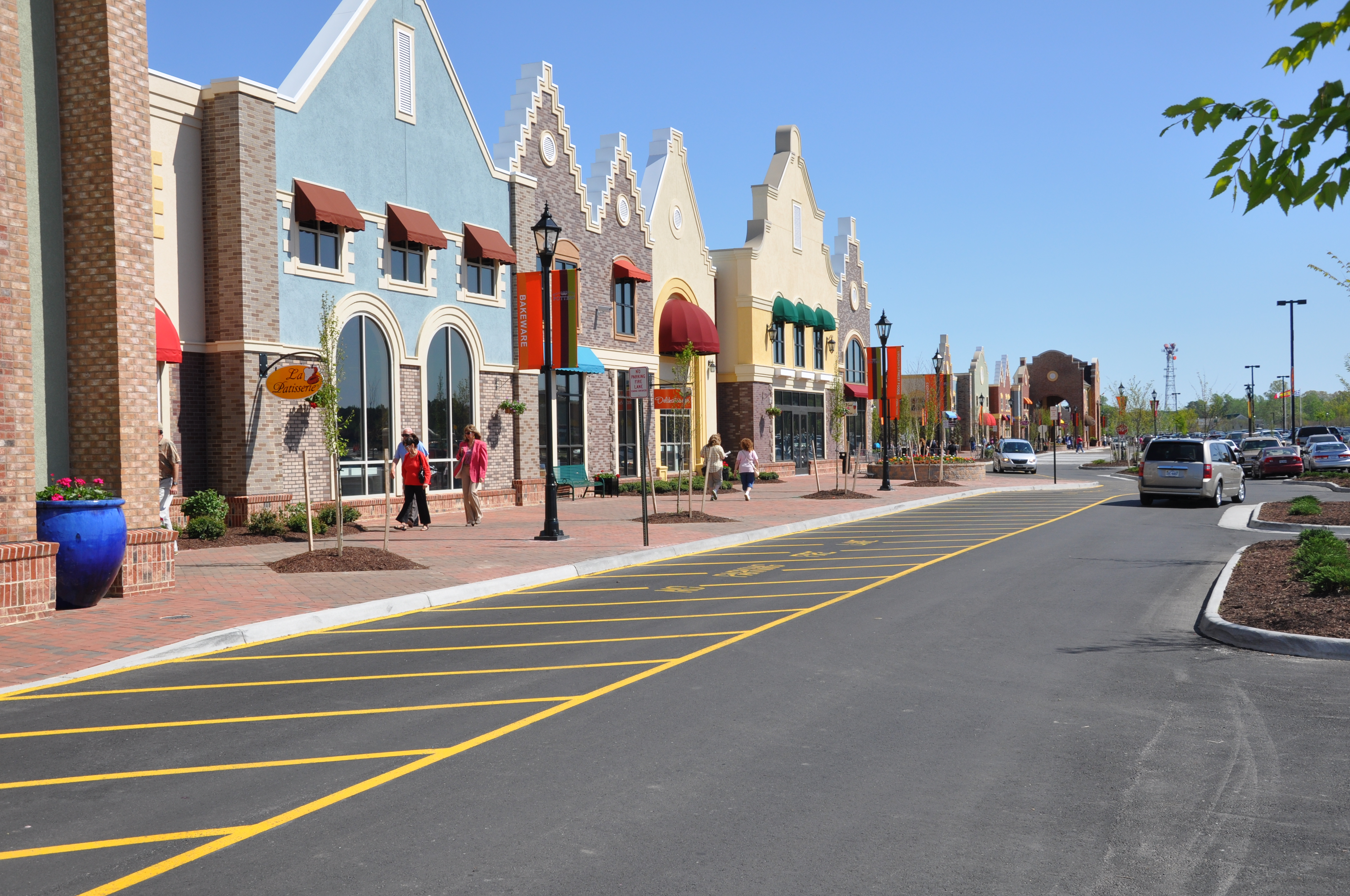 Just opened, new Williamsburg Pottery facilities.